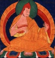 Mahavajrasana, 10th century Indian Buddhist scholar